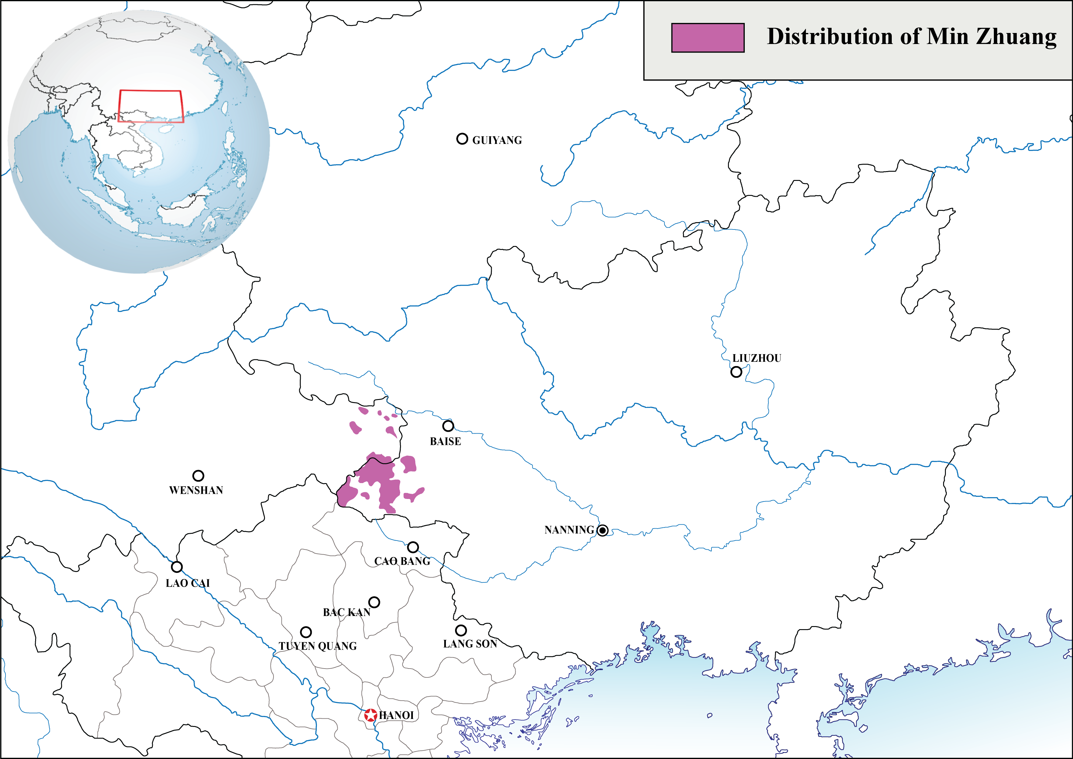 Geographic distribution of Min Zhuang dialect Source: Major Zhuang Language Groups and Related Peoples (Joshuaproject) [1]. Its vector version can be found here: Min Zhuang.svg